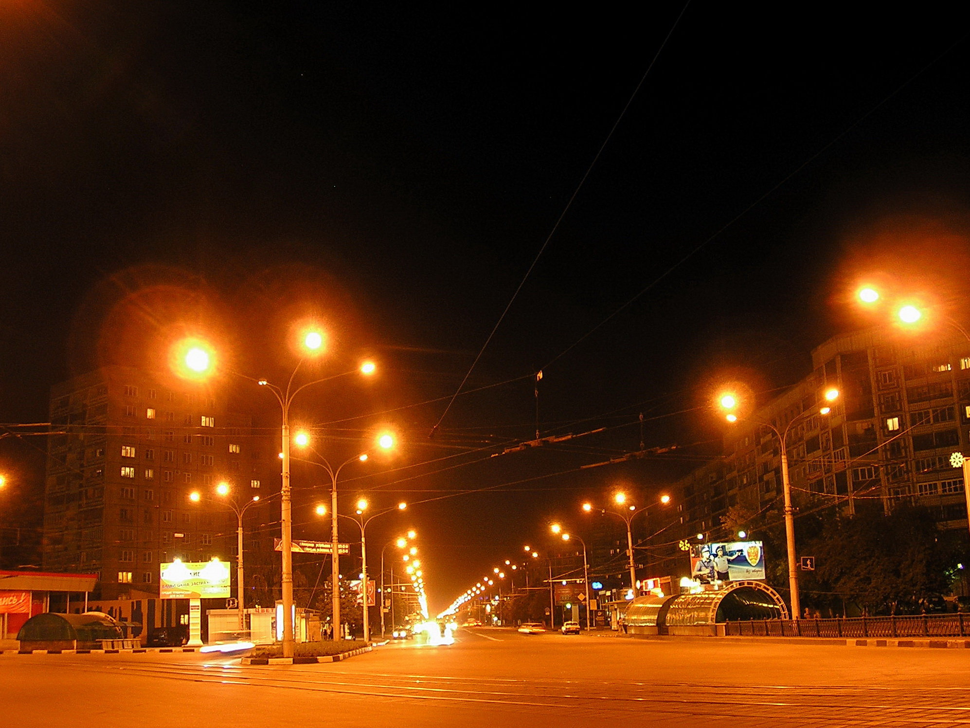 Kirov Street in Novokuznetsk